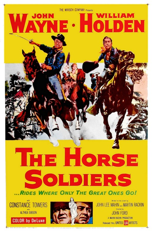 Theatrical poster for the film The Horse Soldiers (1959).